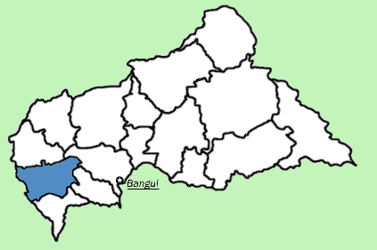 Map showing location of Mambéré-Kadéï_Prefecture in Central African Republic